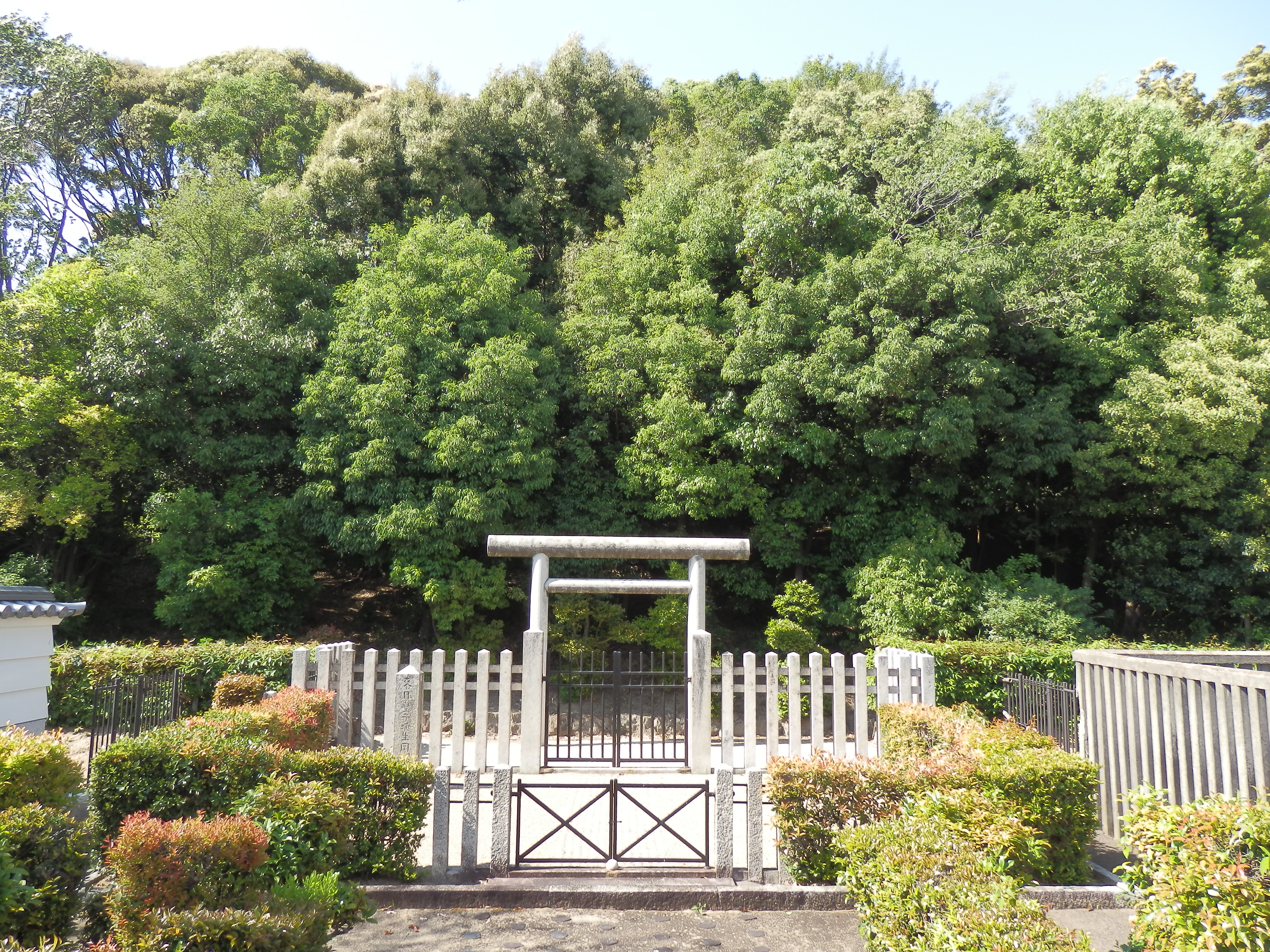 The Tomb of Prince Kume (Prince Shōtoku's younger brother), in Habikino, Osaka Prefecture, Japan